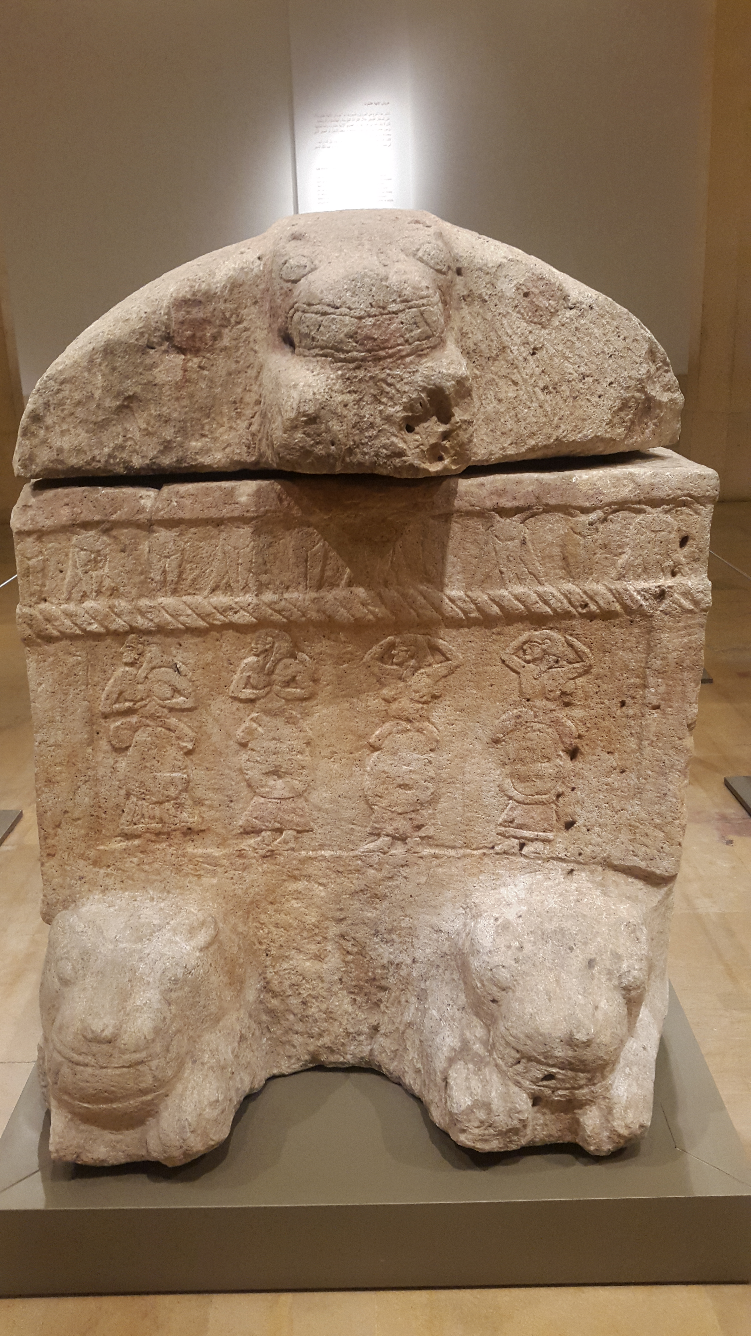 Sarcophagus with Phoenician writing from Byblos